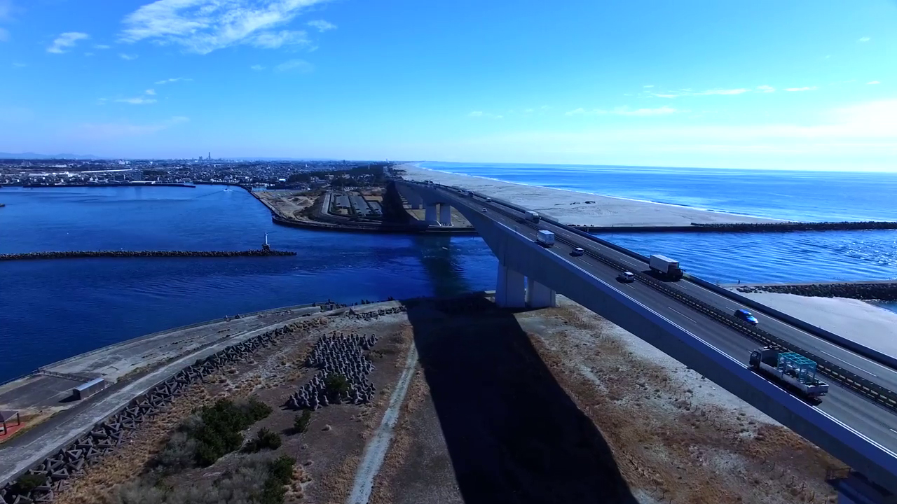 Aerial view of Hamana Bridge in Lake Hamana, Shizuoka Prefecture, Japan.